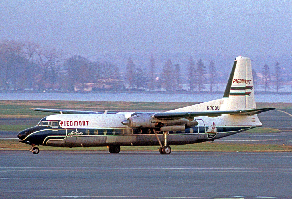 Fairchild-Hiller FH-227B N709U of Piedmont Airlines at Washington DCA Airport in 1972